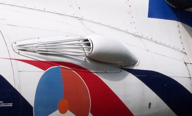 The RAM air intake of the primary heat exchanger on the fuselage of a Fokker F27. It is shielded on versions of the aircraft used for parachuting, in order to prevent parachutes from getting caught in the protrusion.